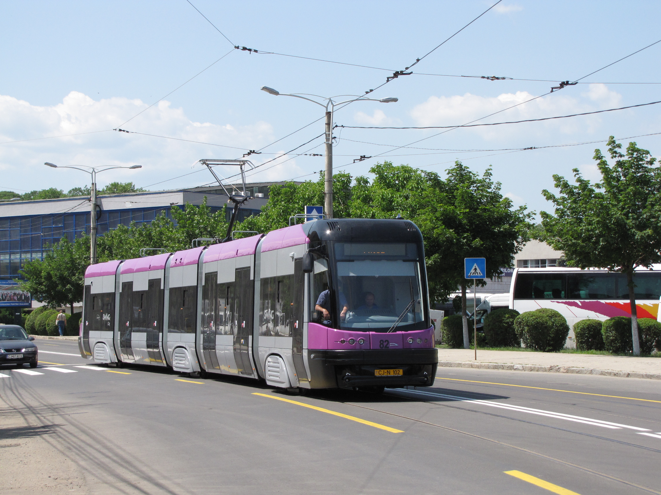 The second new tram in Cluj-Napoca, Romania, in its first day of test drives. Location: Splaiul Independentei.